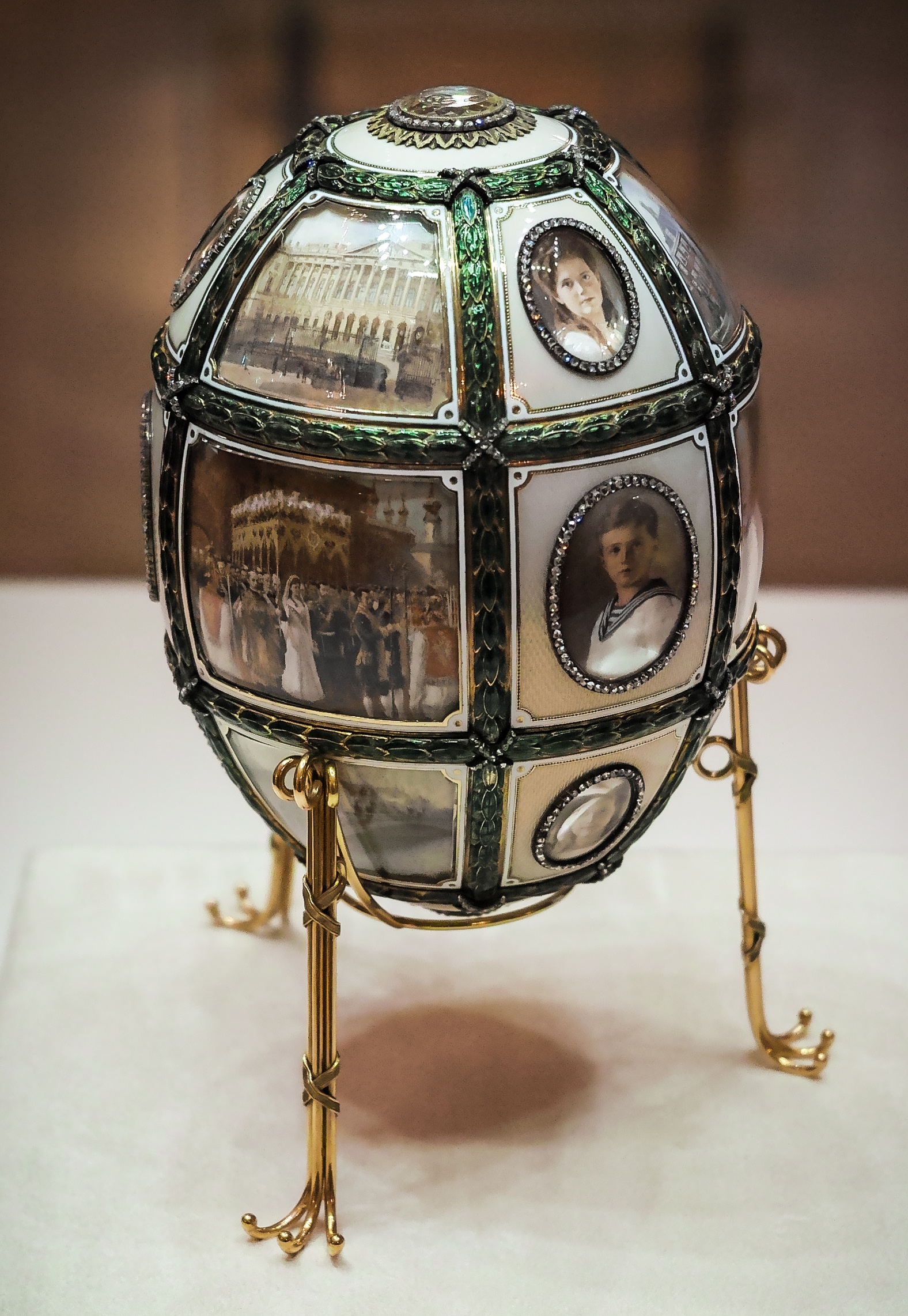 Fifteenth Anniversary egg at Fabergé Museum in Saint Petersburg, Russia To the left you can see the Museum of the Emperor Alexander III in Saint Petersburg, the Ceremonial Procession to the Uspensky Cathedral and the Opening of the Alexander III Bridge in Paris. To the right you can see the Emperor's daughter Grand Duchess Maria Nikolaevna of Russia, his son Tsarevich Alexei Nikolaievich of Russia and his youngest daughter Grand Duchess Anastasia Nikolaevna of Russia. The miniatures were made by court miniaturist Vasilii Zuiev.